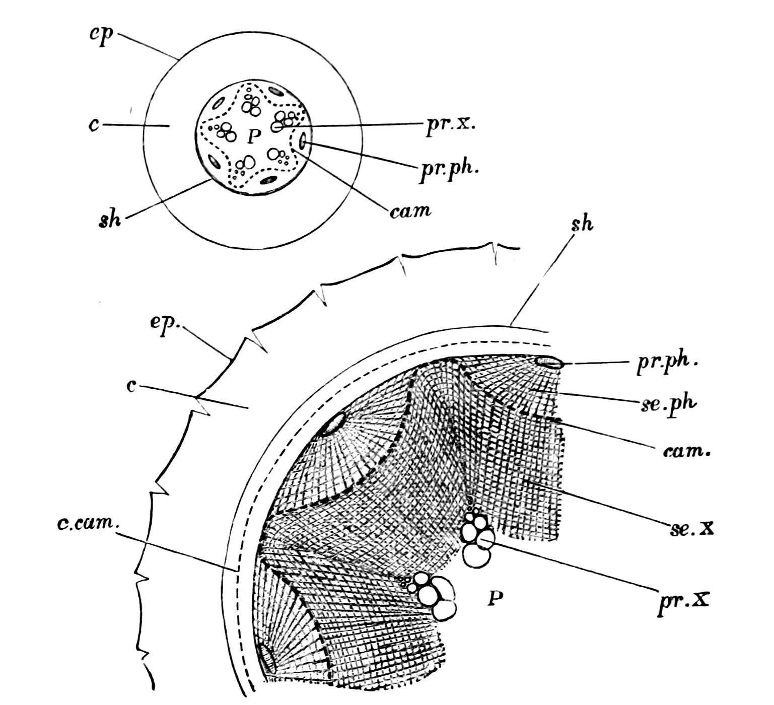 Fig. 24.—Transverse sections (semi-diagrammatic) of roots of oak, to be compared with Fig. 7. The smaller figure, above, shows the cambium ring, cam, now developed as a continuous layer running inside the primary phloëm, pr.ph, and outside the primary xylem, pr.x; and the larger figure shows the results of its activity in the formation of secondary phloëm, se.ph, inside the primary, and secondary xylem, se.x, between the primary xylem groups. In both cases, ep., piliferous layer; c, cortex; P, pith; sh, endodermis. Within the latter lies the pericycle, in which the cork cambium, c.cam, is now developed.